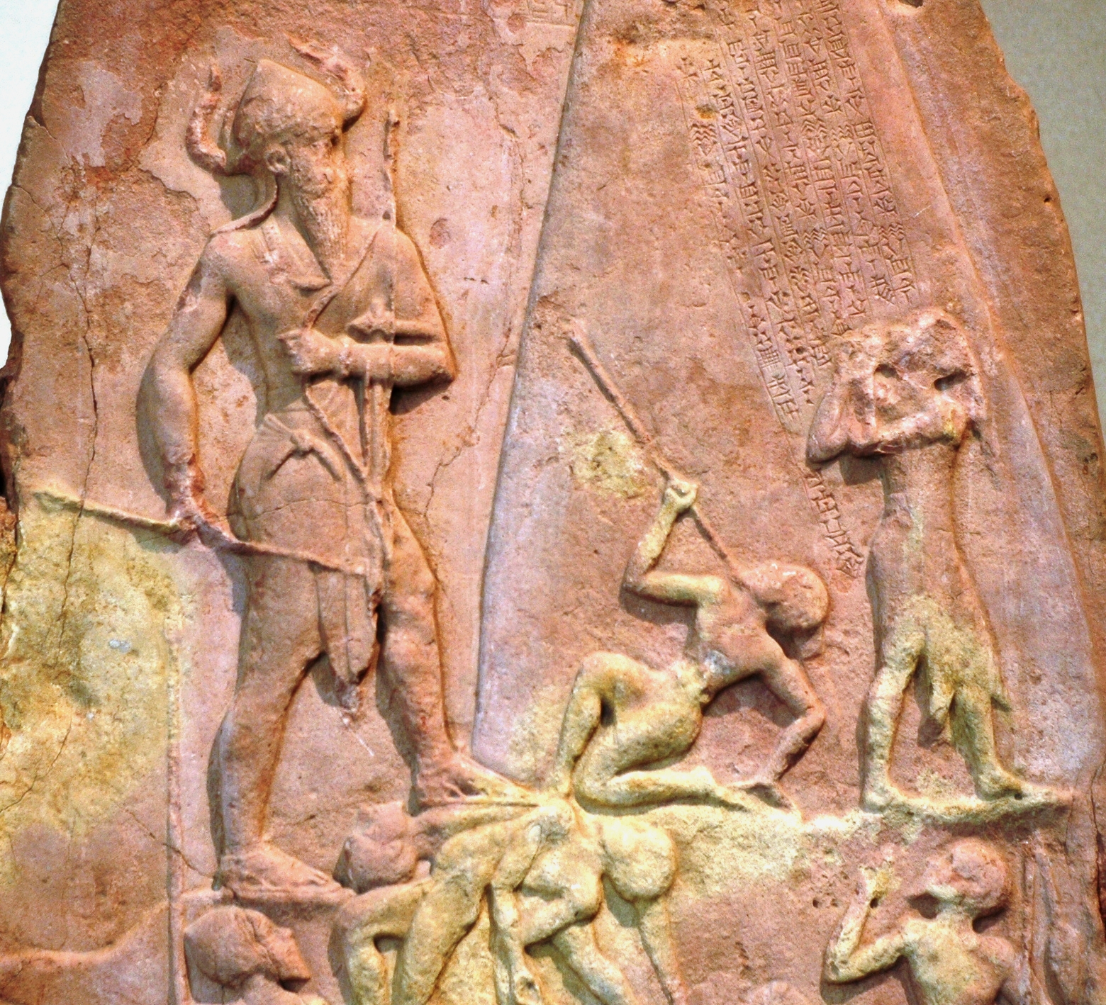 Stele of Narâm-Sîn, king of Akkad, celebrating his victory against the Lullubi from Zagros. Limestone, c. 2250 BCE. Brought from Sippar to Susa among other spoils of war in the 12th century BCE.Now given dates for Naram-Suen of Akkad, reign 2190 - 2154 BC.